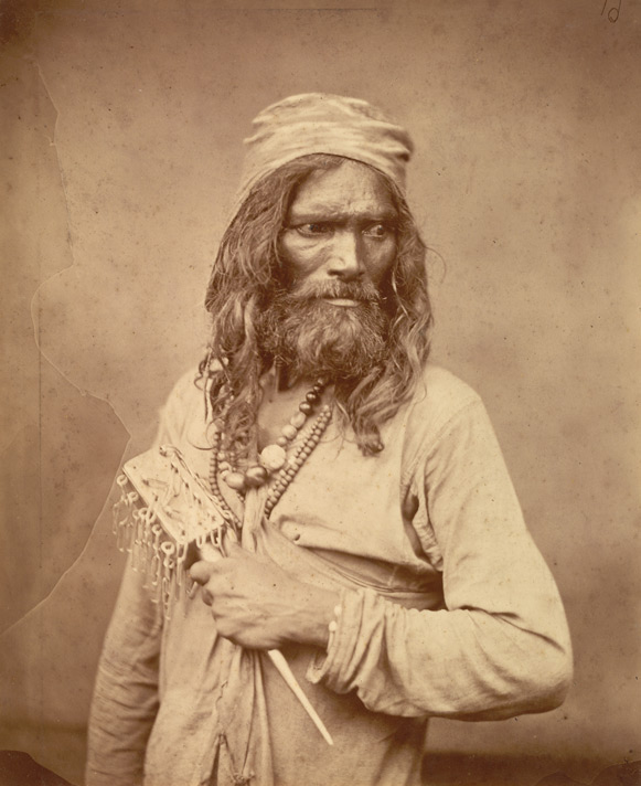 Portrait of a Muslim ascetic (fakir) in Eastern Bengal. This fakir was a member of the Madaria order of Sufis who followed the saint Shaikh Sayyid Badi-u'd-din Qutb al-Madar.